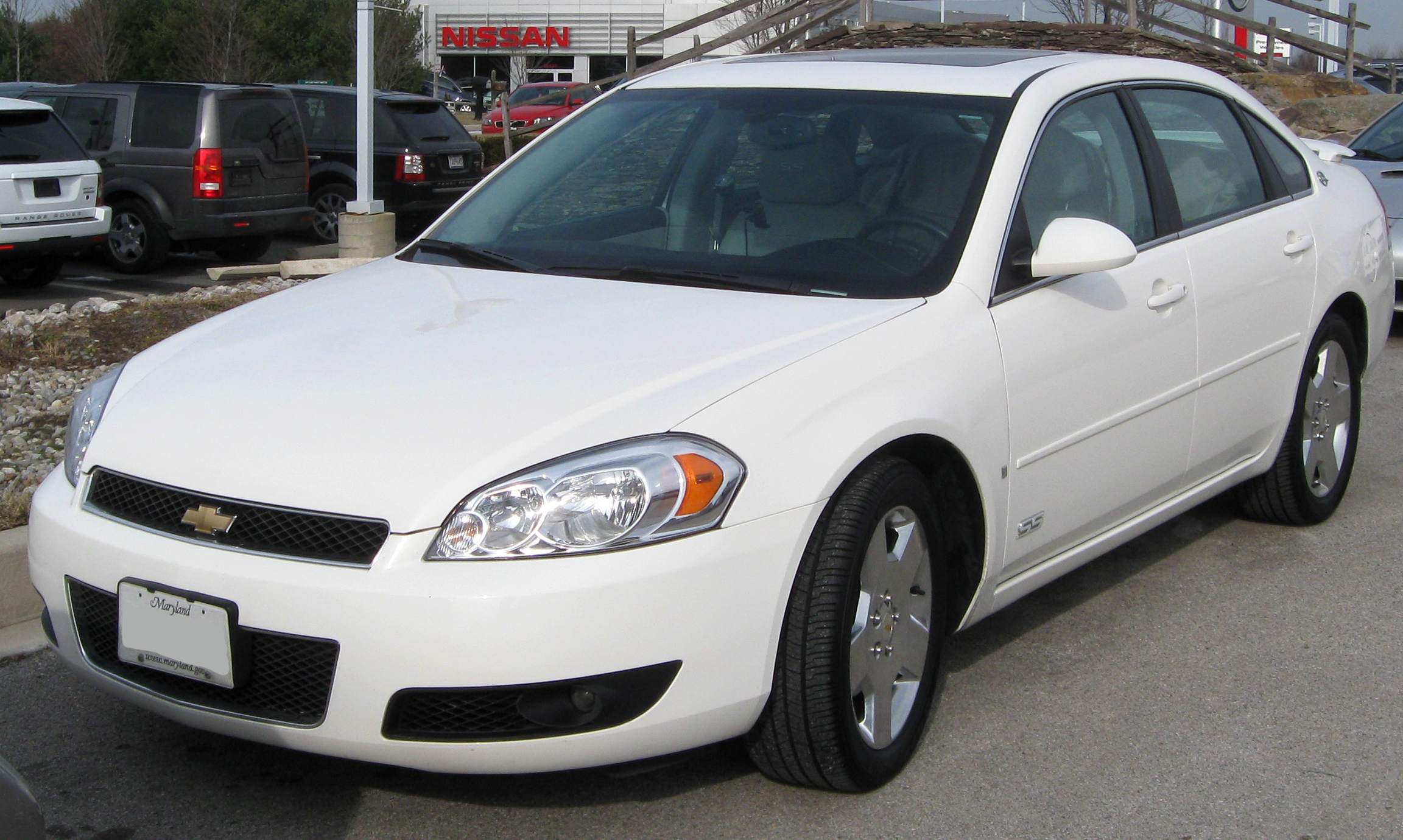 2006-2009 Chevrolet Impala photographed in Clarksville, Maryland, USA.